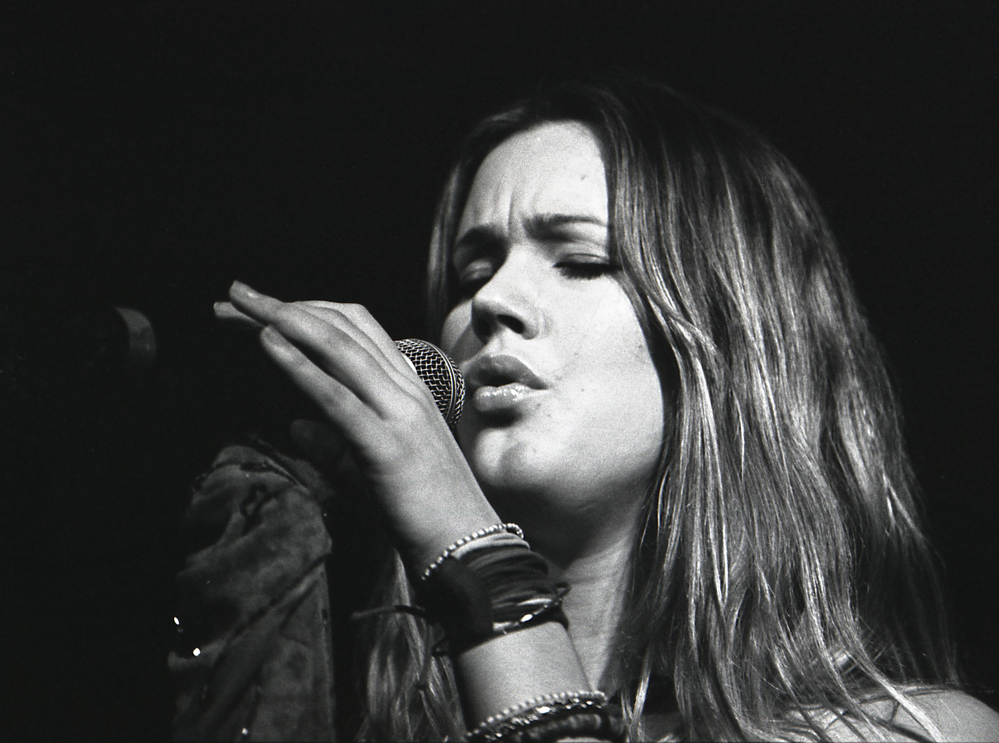 Joss Stone, at Salumeria della Musica, Milan, in 2005.